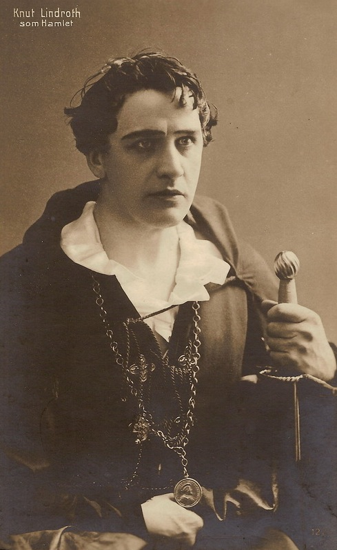 Knut Lindroth (1873-1957), Swedish actor and theatre company owner; seen here as Hamlet